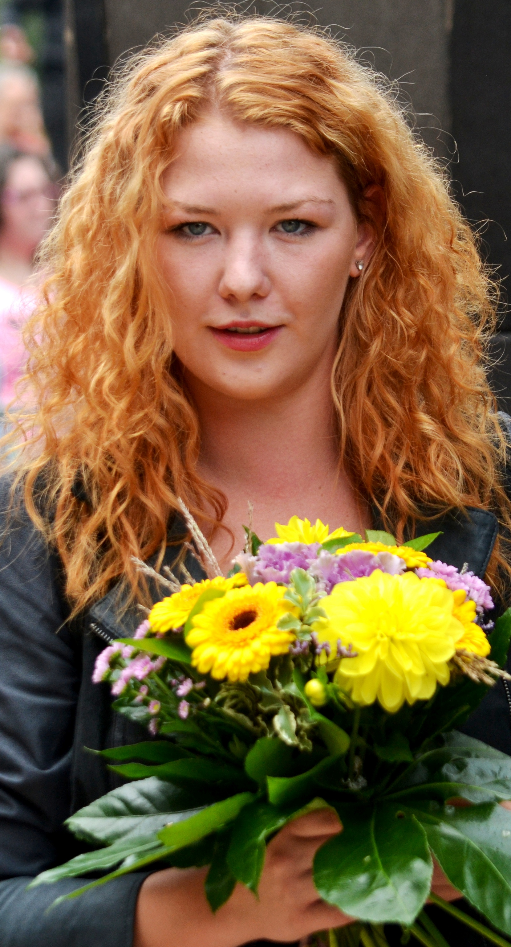 Debbi, Czech vocalist (born in Germany)